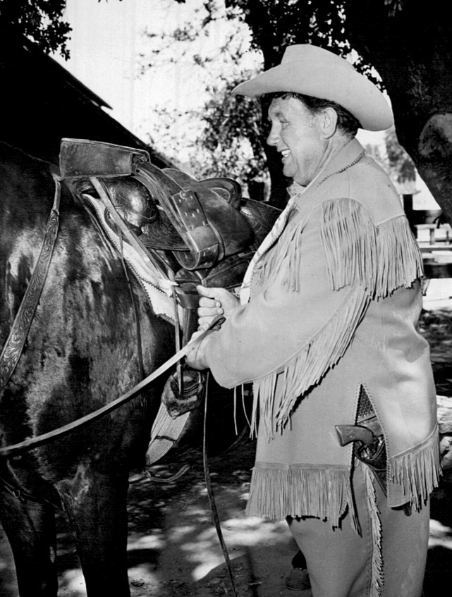 Photo of Andy Devine as Jingles in The Adventures of Wild Bill Hickok (TV series) The item has no copyright markings on it as can be seen in the links above.